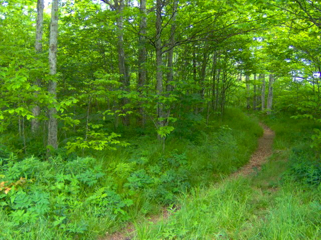 The Appalachian Trail ascending the western slope of Silers Bald, just below the summit, in the Great Smoky Mountains. Silers Bald is located on the border between Tennessee and North Carolina. The mountain was once a large grazing pasture, but trees have quickly reclaimed it.